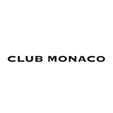 Club Monaco official logo.